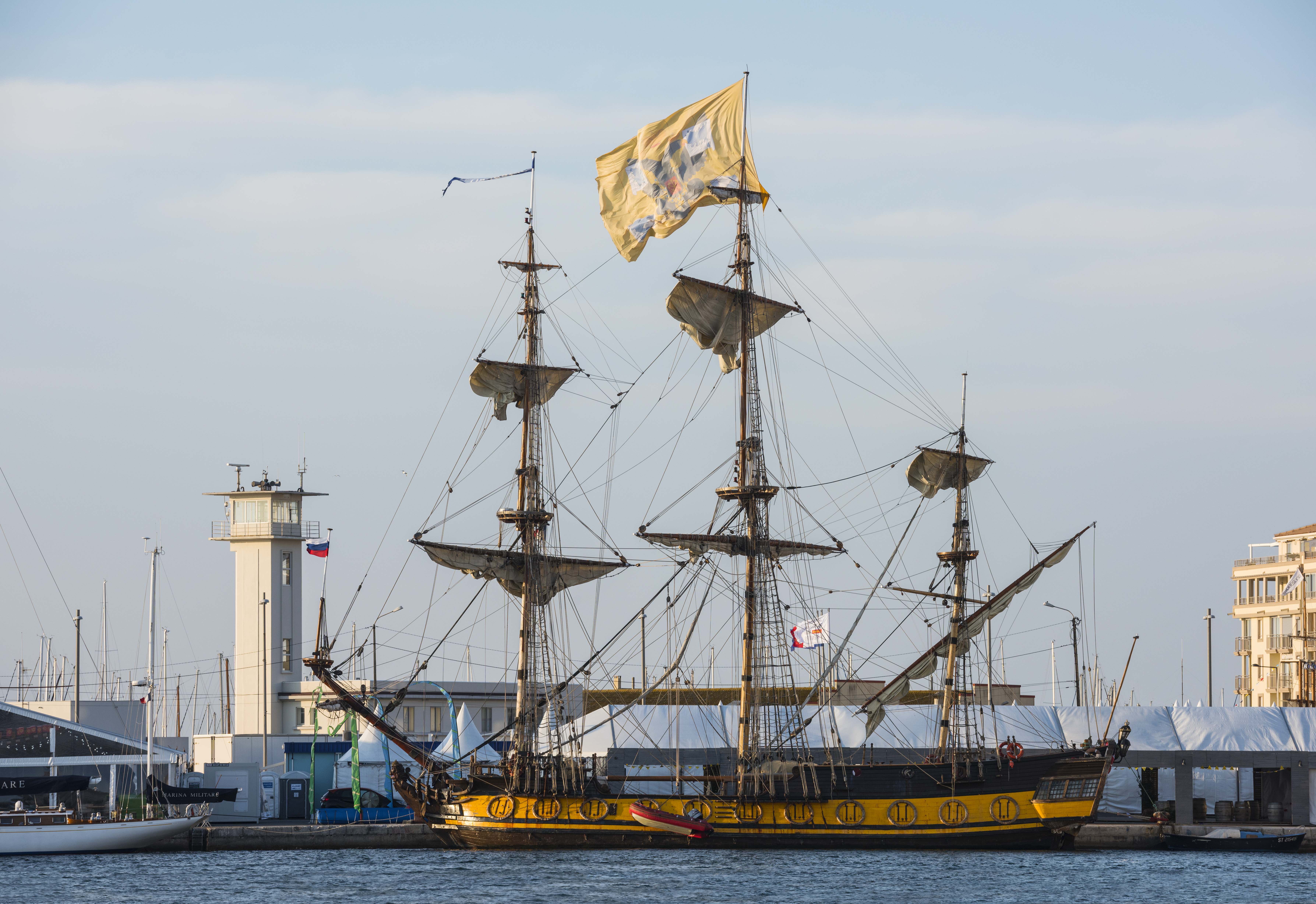 Shtandart (ship, 1999). During the event "Escale à Sète 2016". Sète, Hérault, France